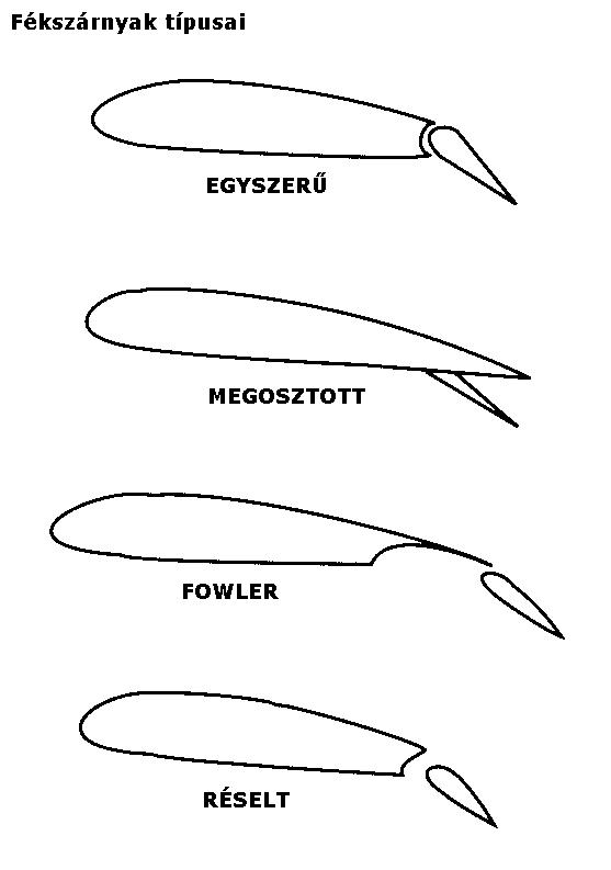 Four types of flaps